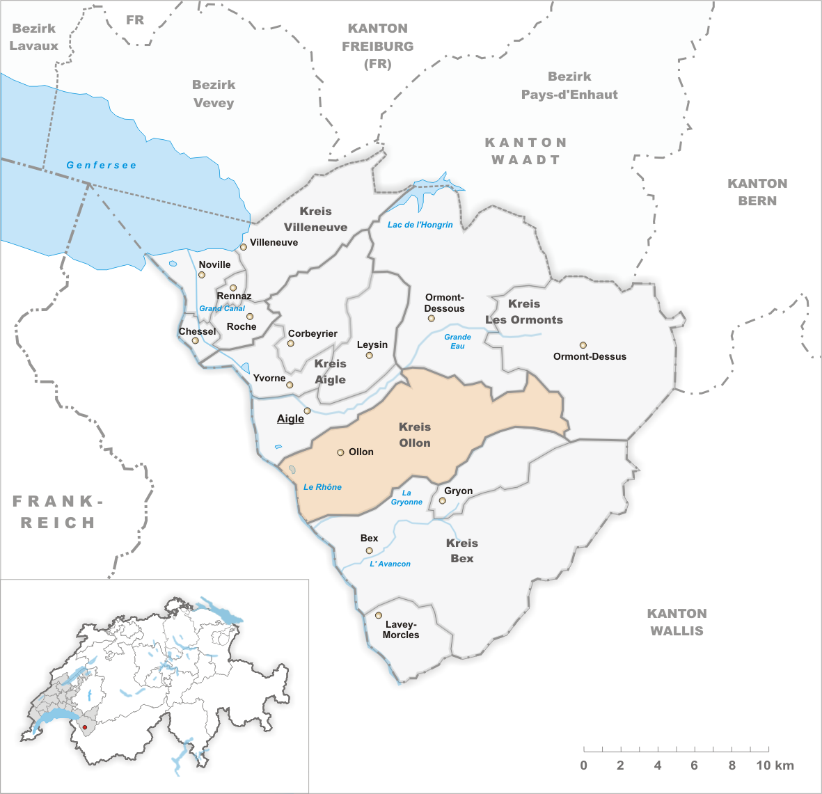 Municipality Ollon